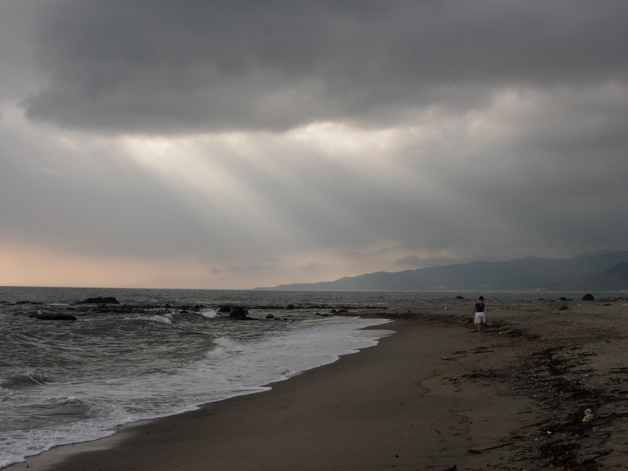 Coastline in Kumaishi. A cloudy day in August, 2005.